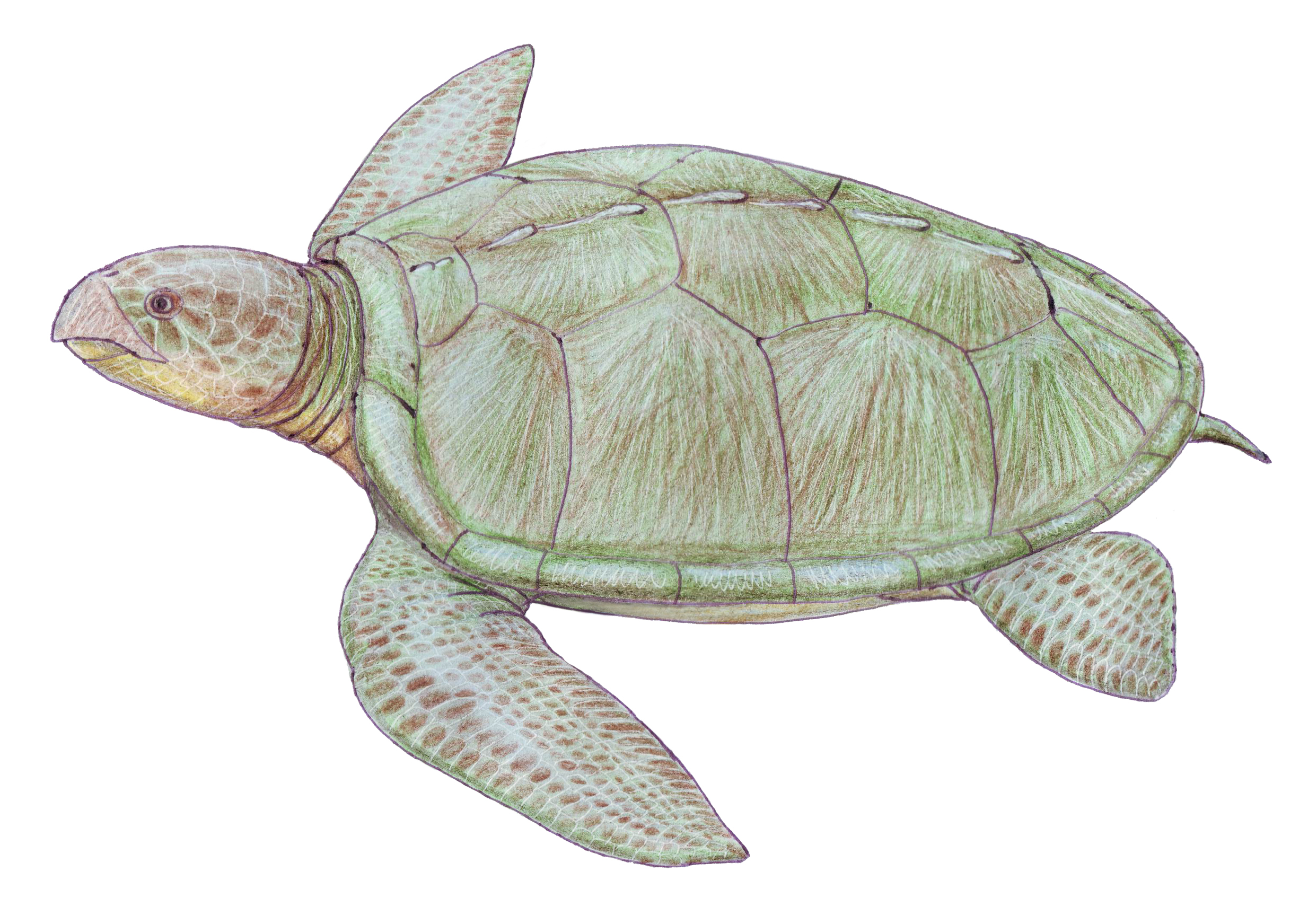 Notochelone costata - protostegid turtle from Early Cretaceous (Albian) of Australia